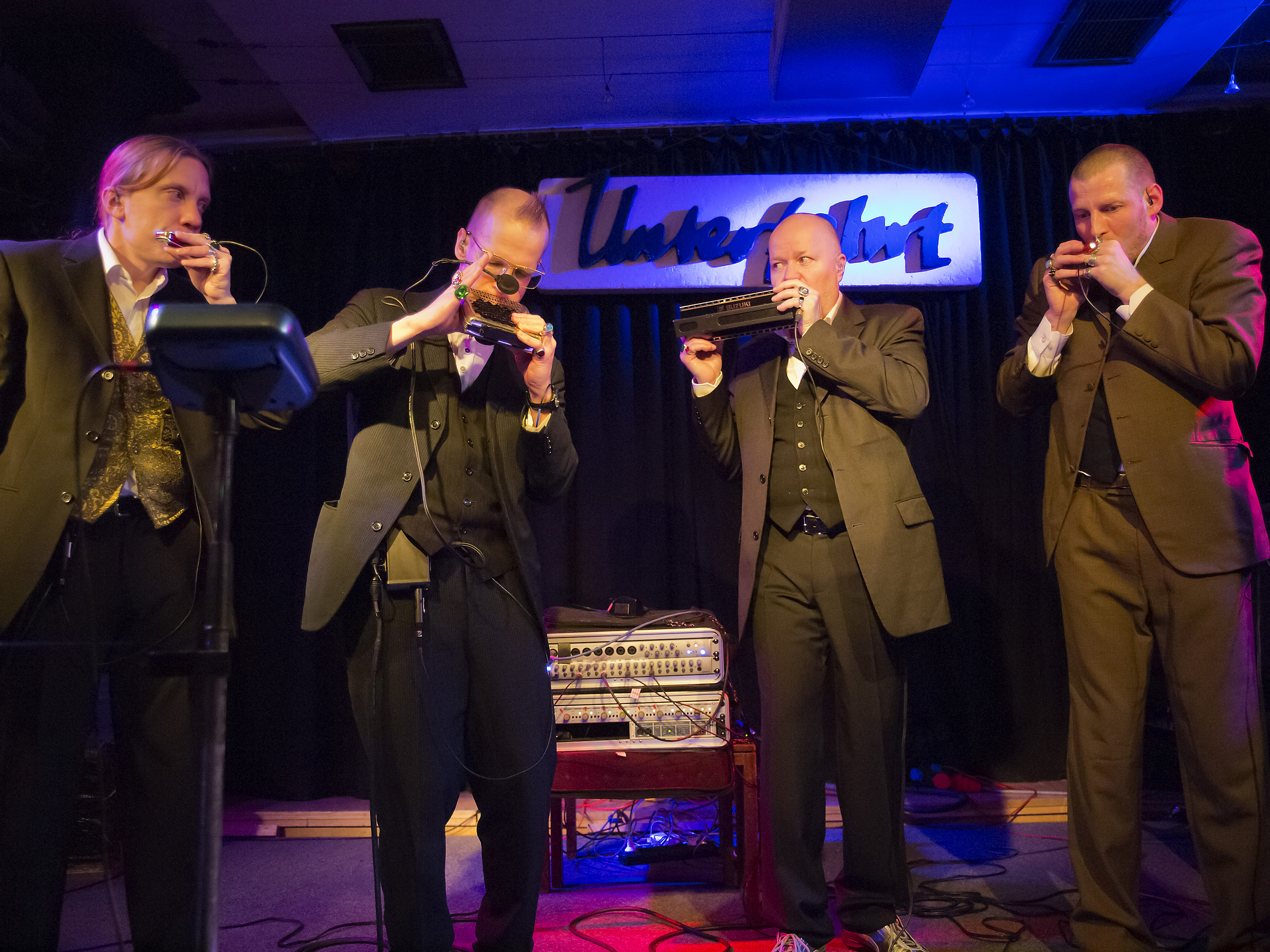 Sväng, from left to right: Eero Grundström, Jouko Kyhälä, Pasi Leino, Eero Turkka, Jazz harpists, Picture taken in Jazz Club Unterfahrt, Munich/Bavaria